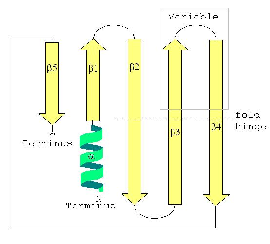 Created by Robert E. Plaag, using Microsoft Paint, for use in LSm protein family Wikipedia article.